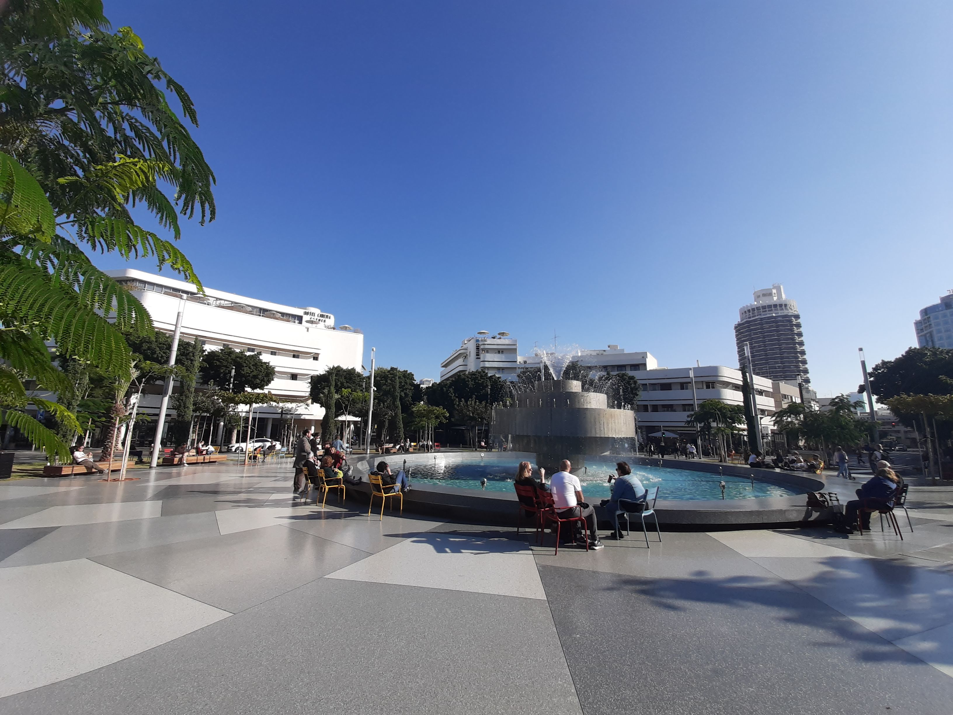 Dizengoff Square Fountain